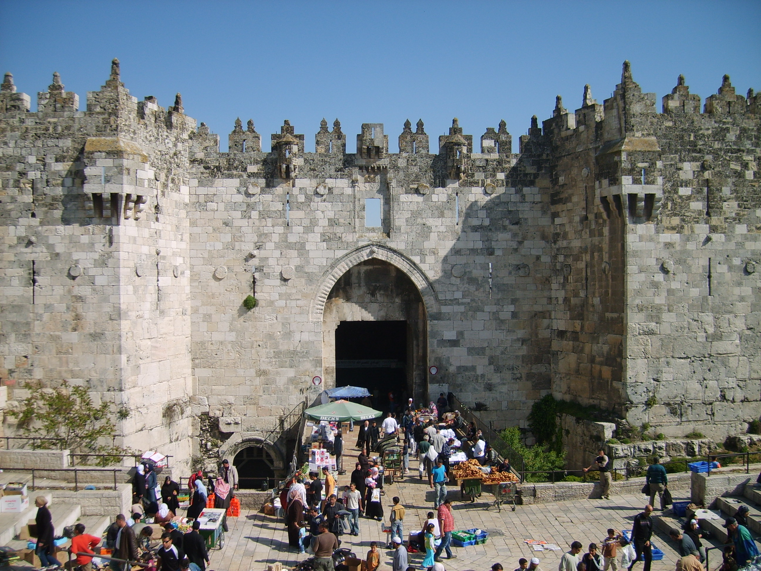 The Damascus Gate in Jerusalem.